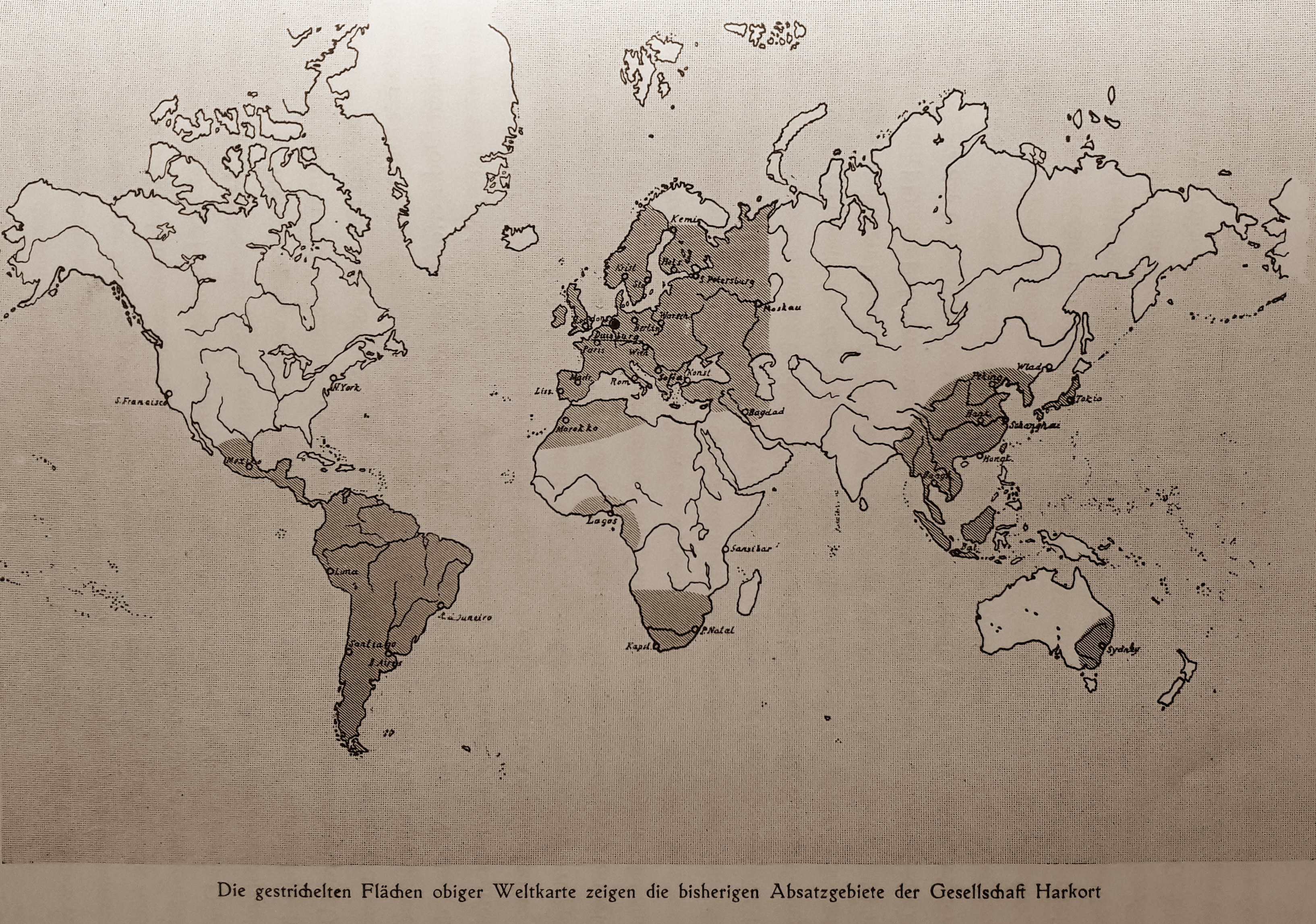 International Sales Harkort Brückenbau